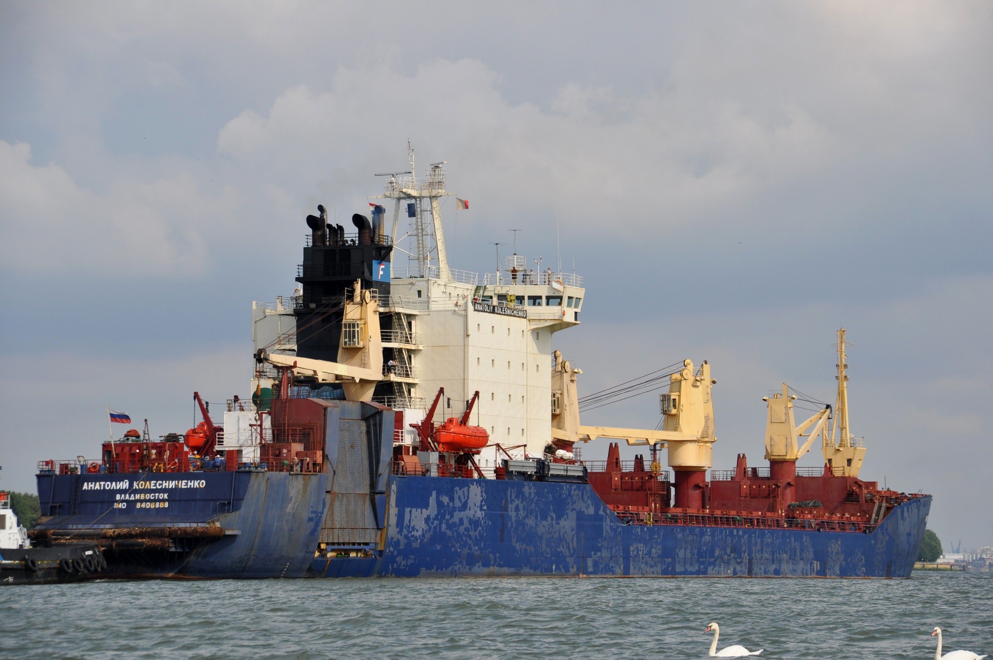 SA-15 Super class arctic cargo ship Anatoliy Kolesnichenko (IMO 8406688) in Rotterdam on 9 August 2009.